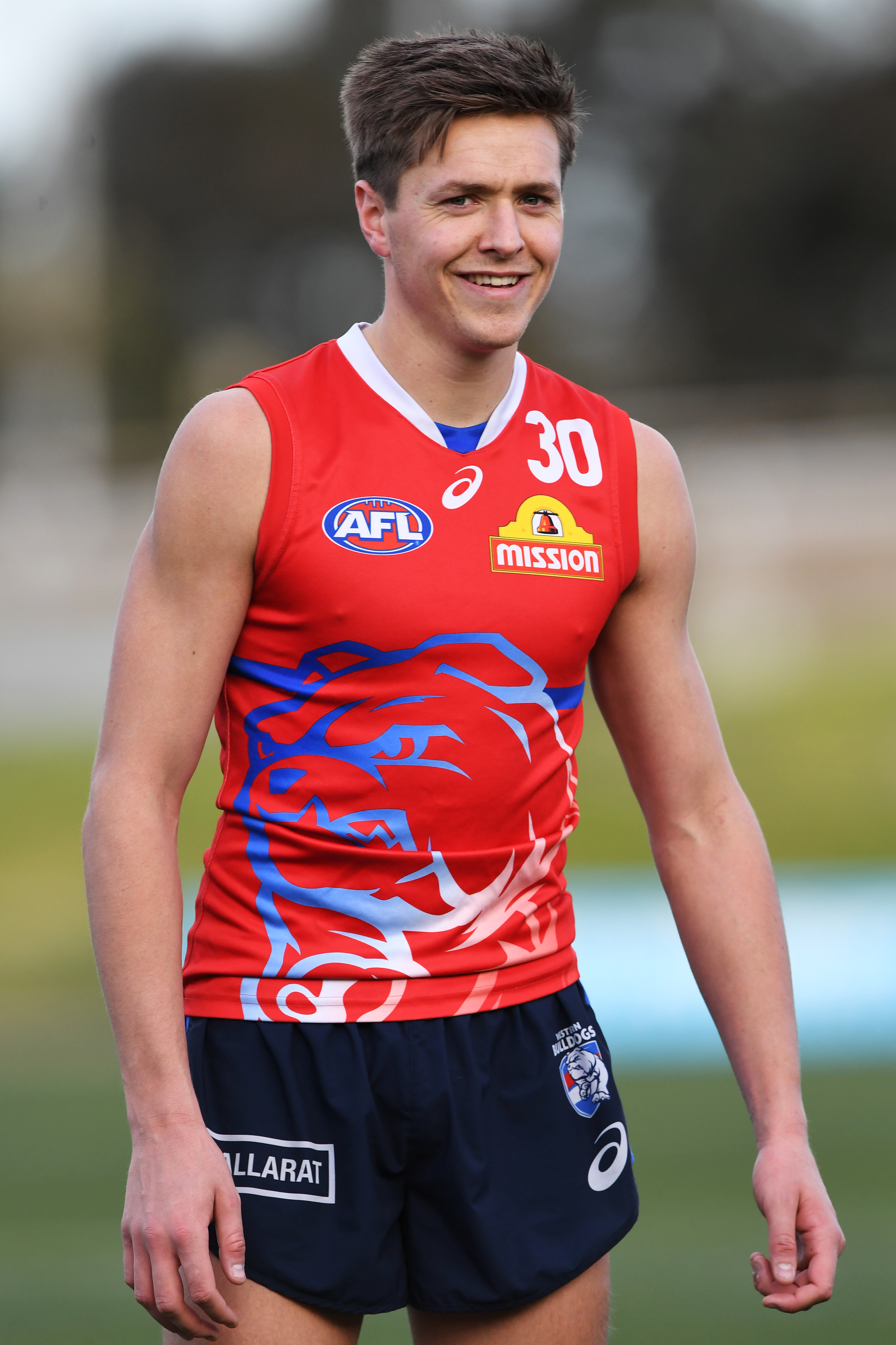 Fergus Greene of the Western Bulldogs during Western Bulldogs training on 7 August 2018 at Whitten Oval in Melbourne, Victoria.